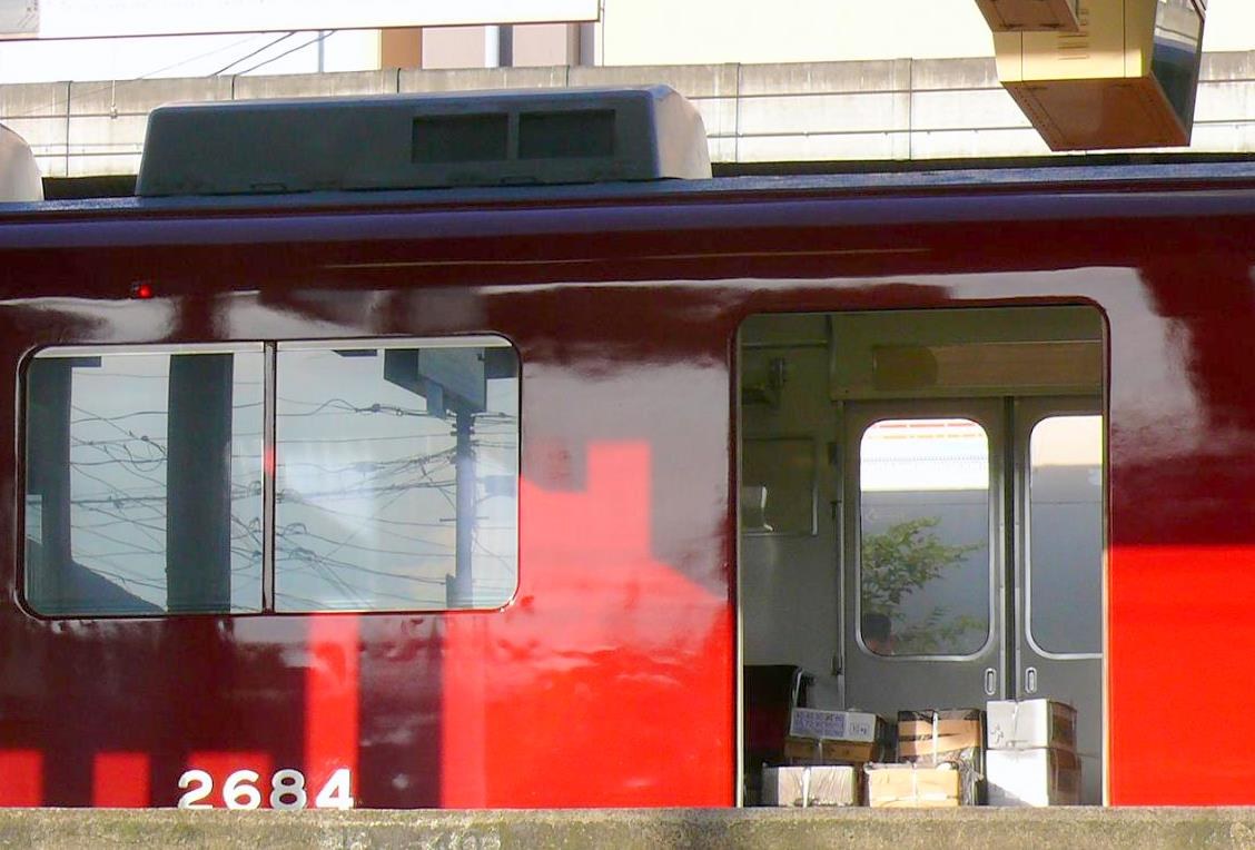 Kintetsu Sengyo Train Matsusaka Station. (Japan)